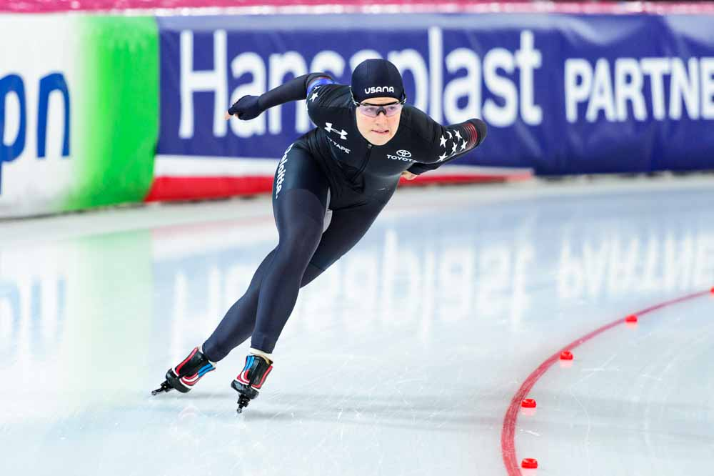 American speedskater